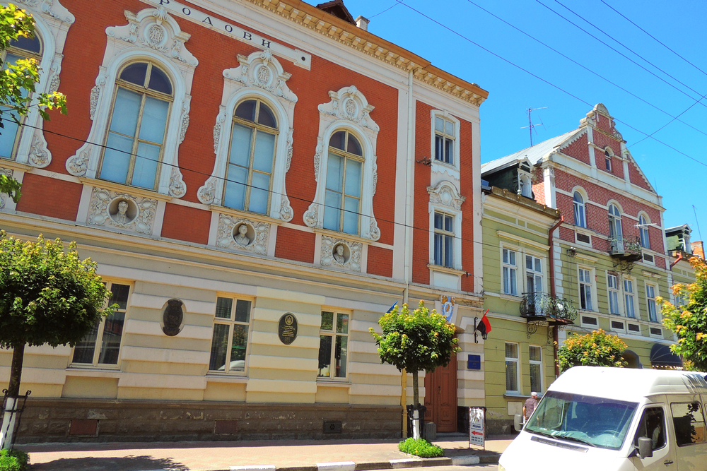 Street in Stryi - a small town in Lviv oblast